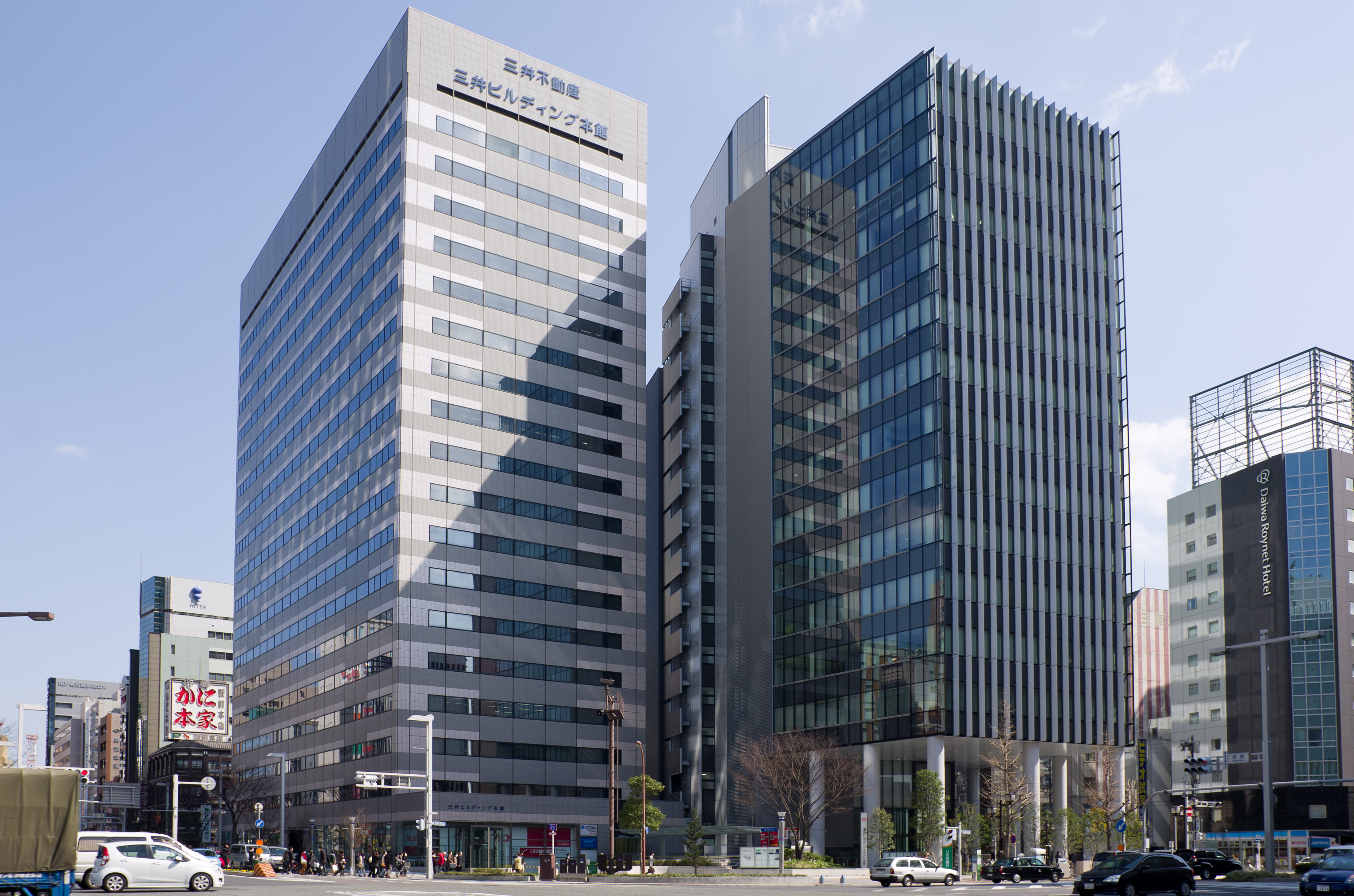 Nagoya Mitsui Building Main Wing & New Wing in Nakamura-ku, Nagoya, Aichi, Japan.